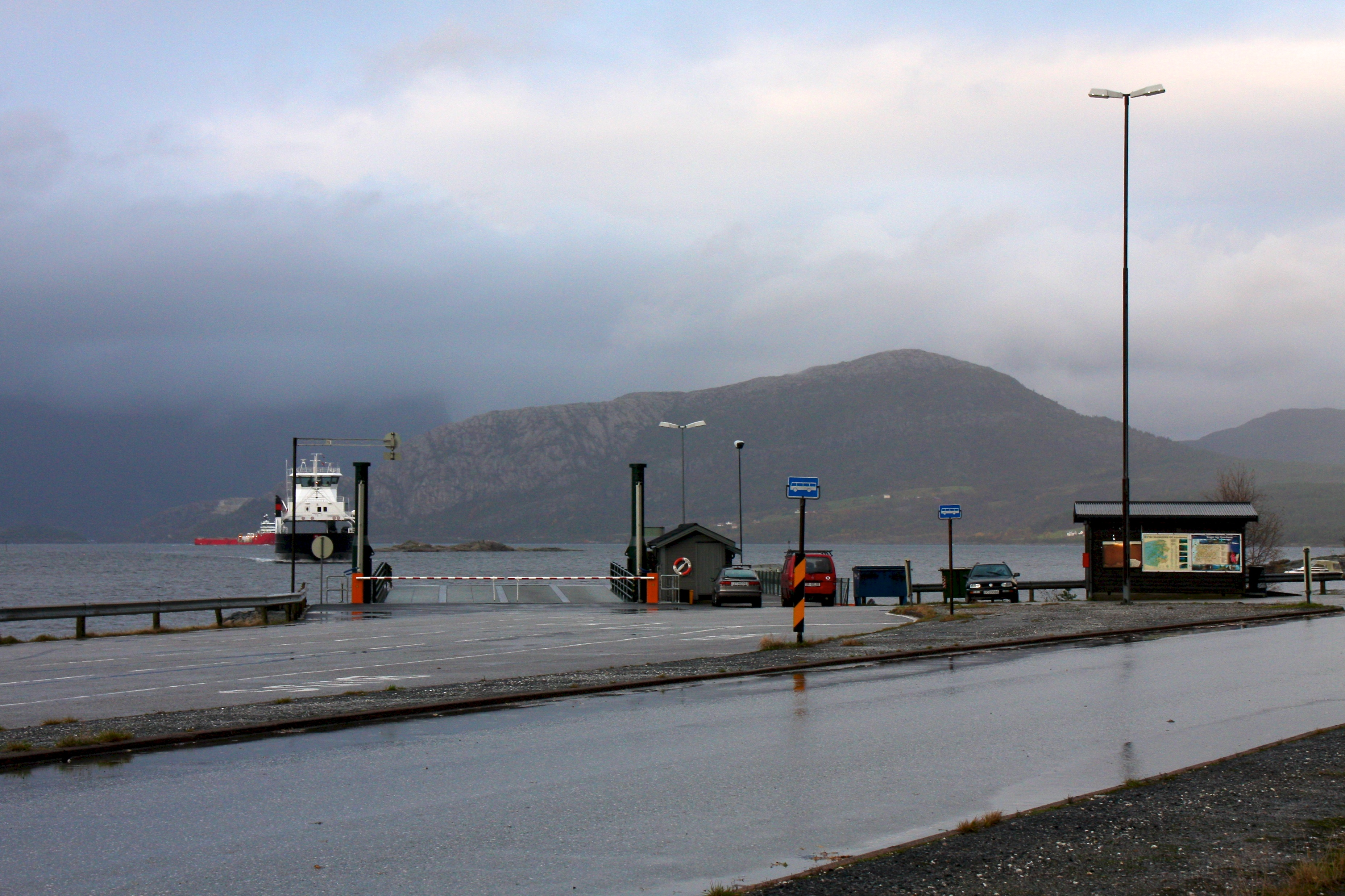 Rutledal in Gulen municipality, Norway.